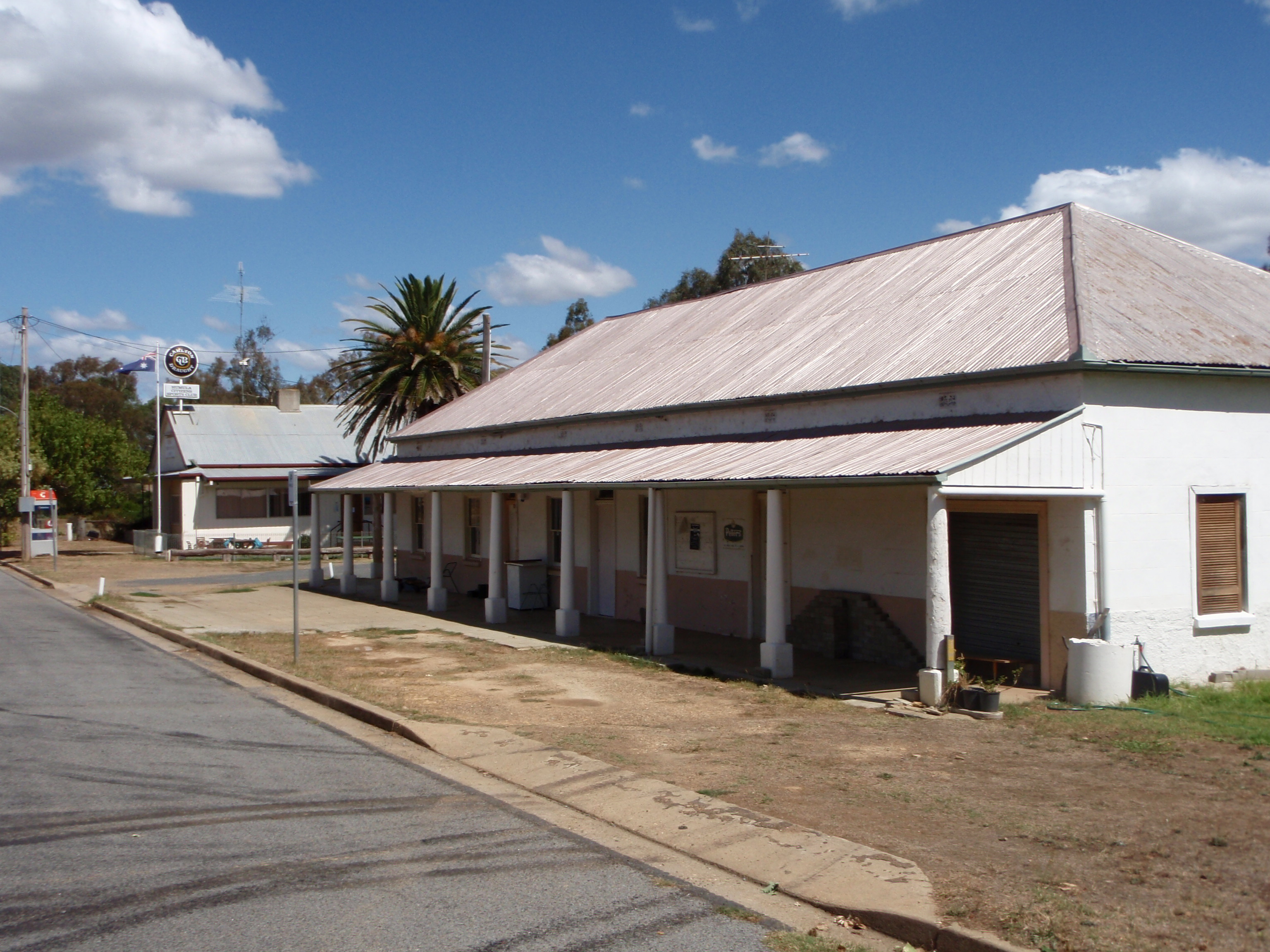 Main Street, Humula, New South Wales